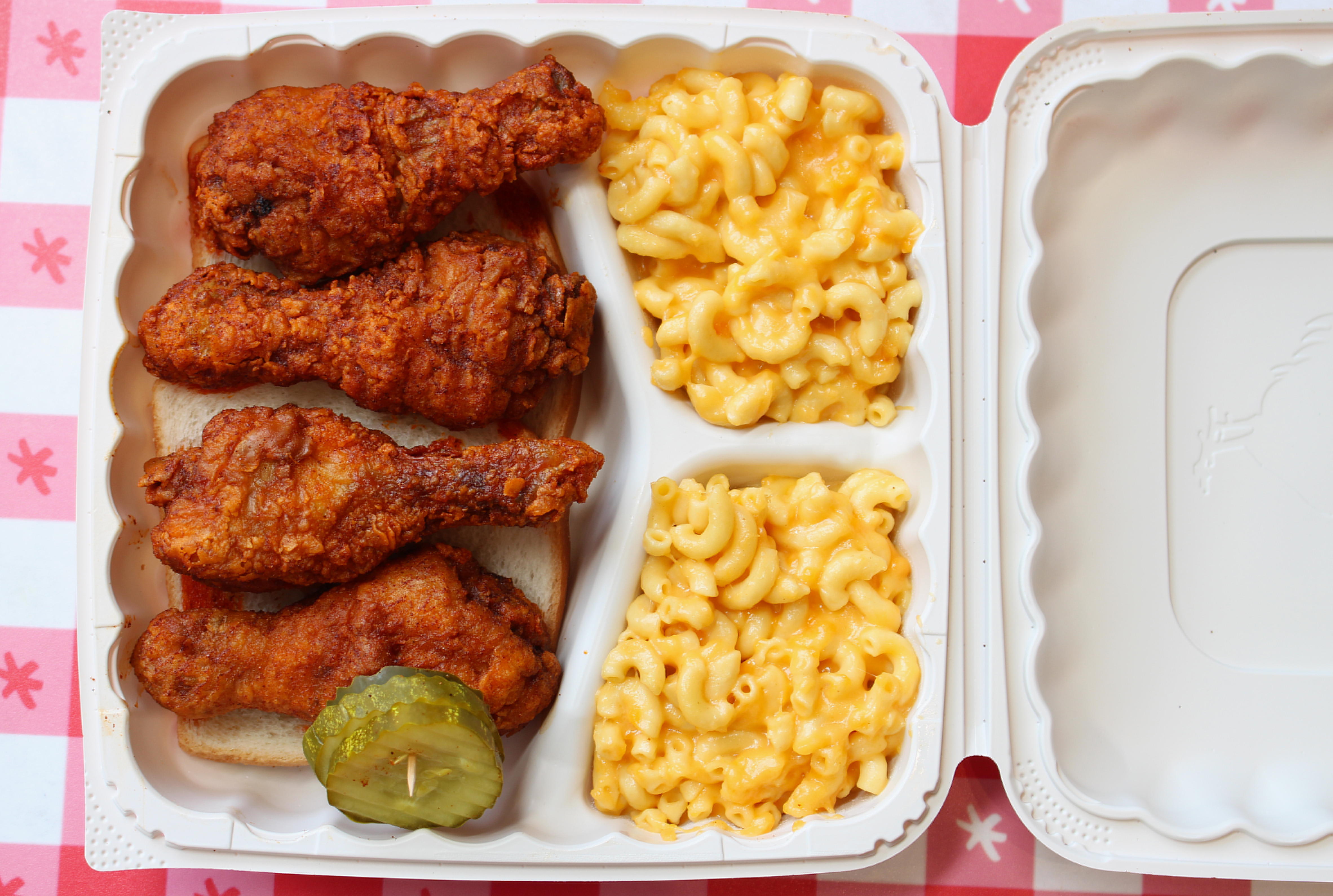 Nashville-style hot chicken with a double serving of Ma's Mac and cheese. Hot Chicken Takeover drumsticks served in the infamous Hot heat-level spice.